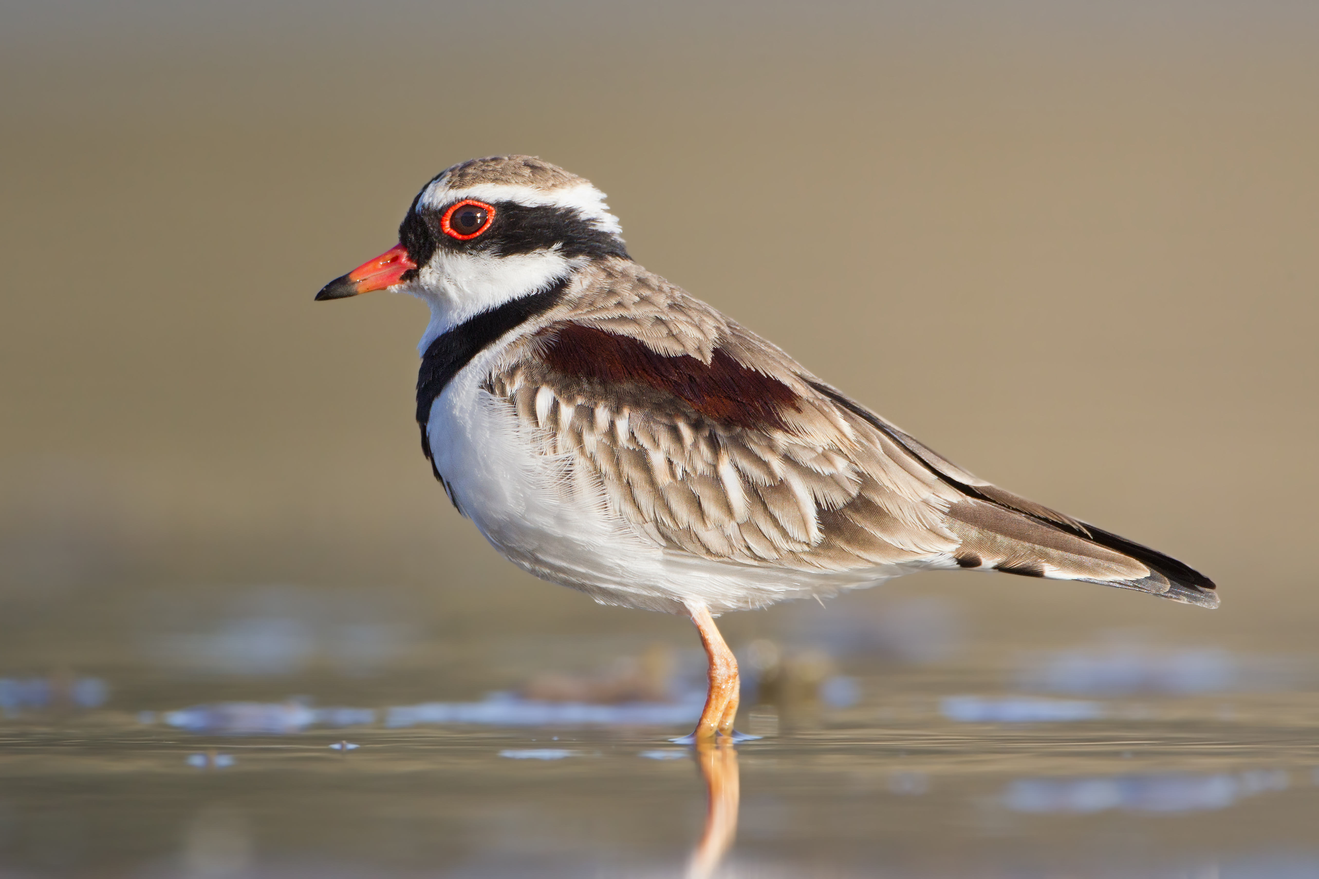 Black-fronted Dotterel (Elseyornis melanops), Chiltern, Victoria, Australia